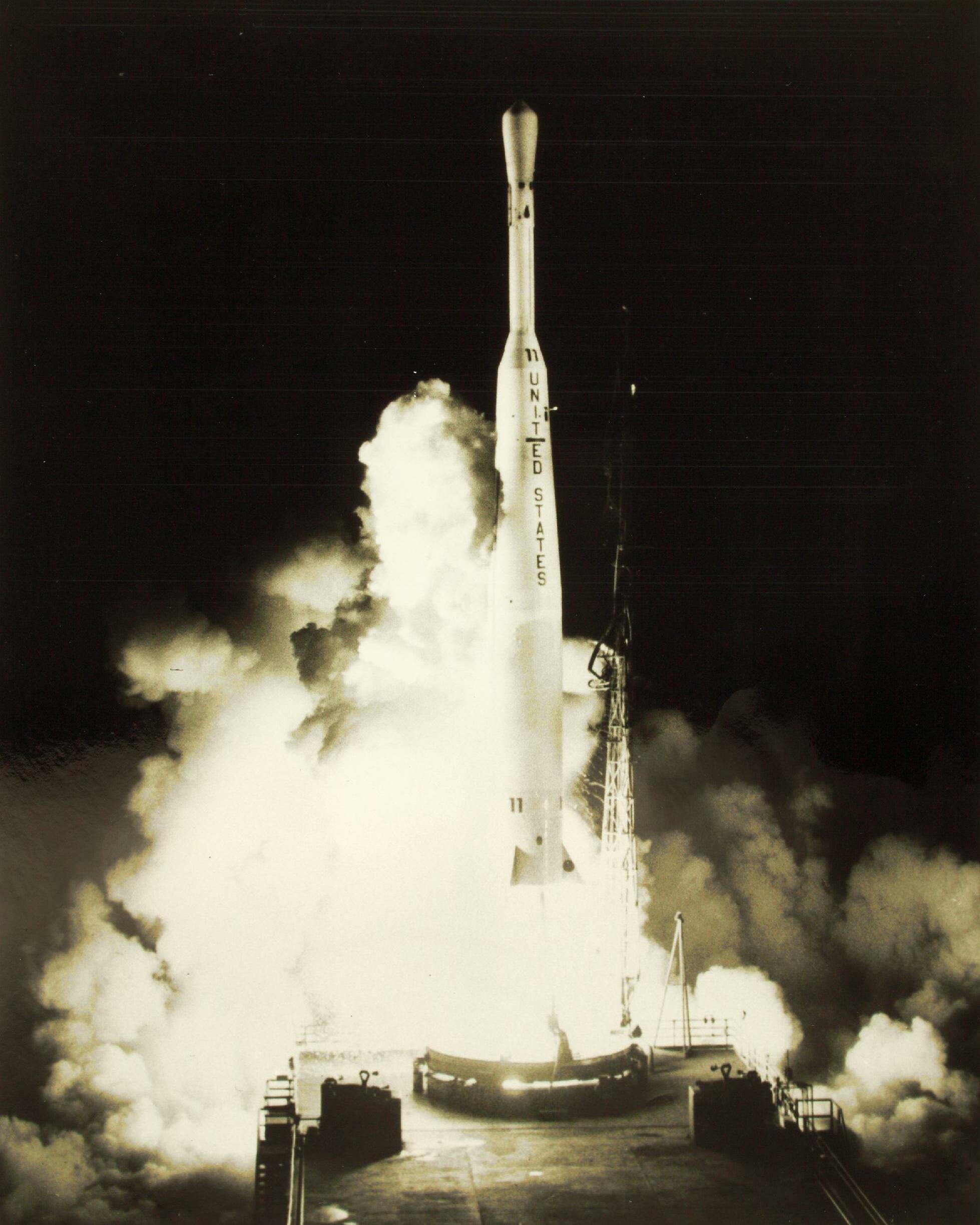 Thor-Delta 11 launching with first Telstar satellite.